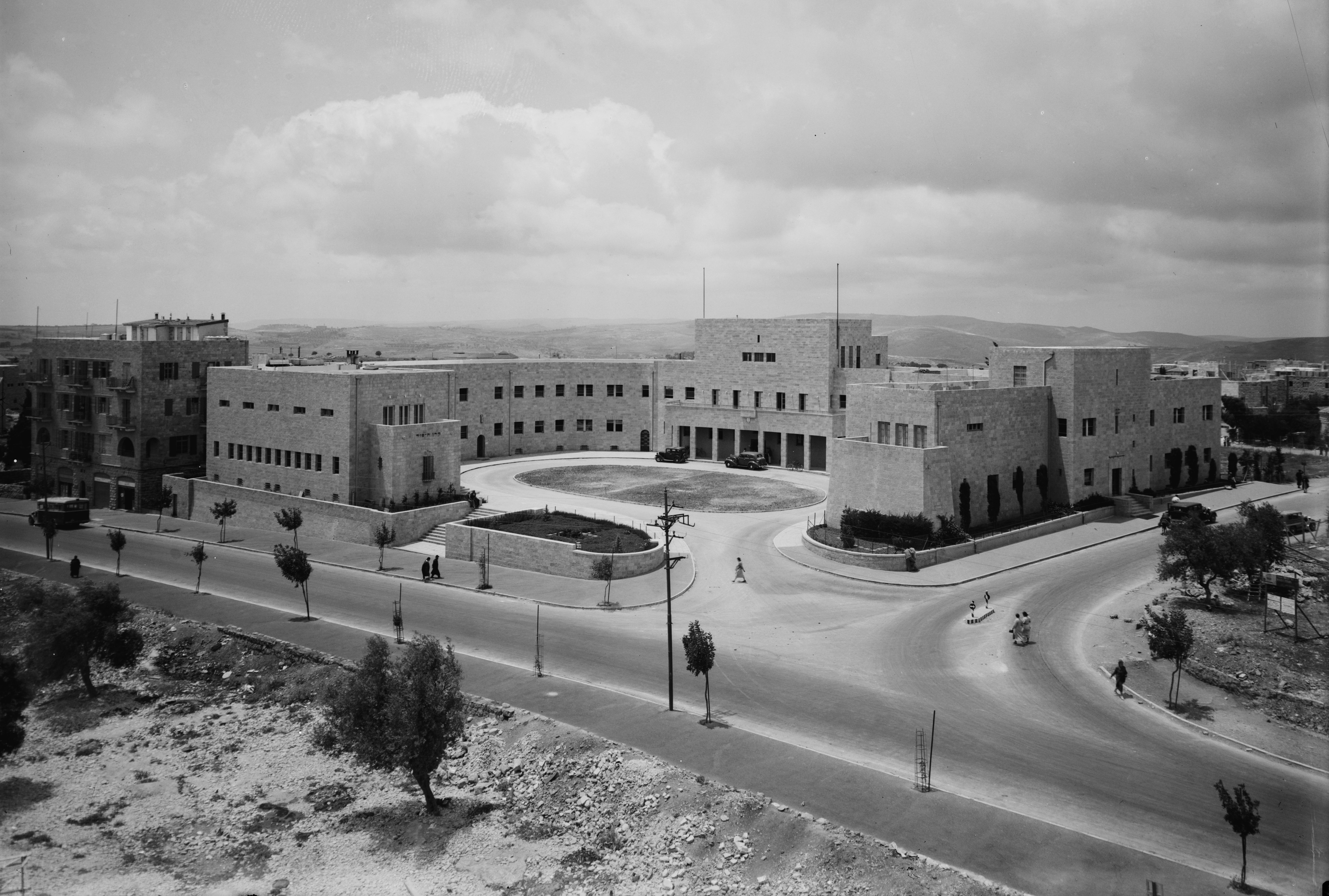 Title: "Golden books" of Honour. Records stored in Zionist Executive bldgs. on King George Ave., Jer. [i.e., Jerusalem] Zionist Executive bldgs. Abstract/medium: G. Eric and Edith Matson Photograph Collection Physical description: 1 negative